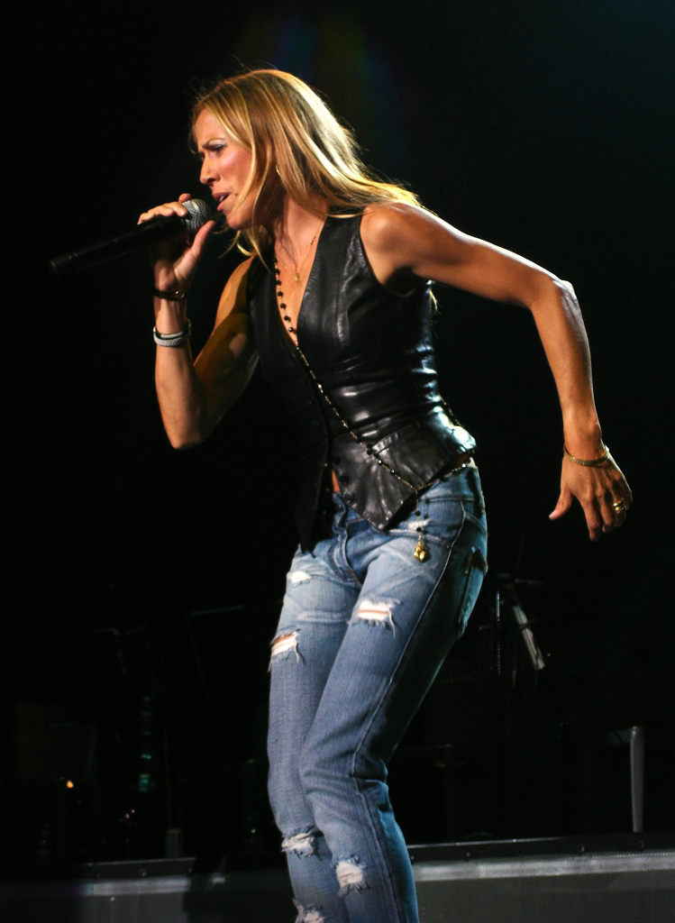 Sheryl Crow's concert at Bloomington, Illinois